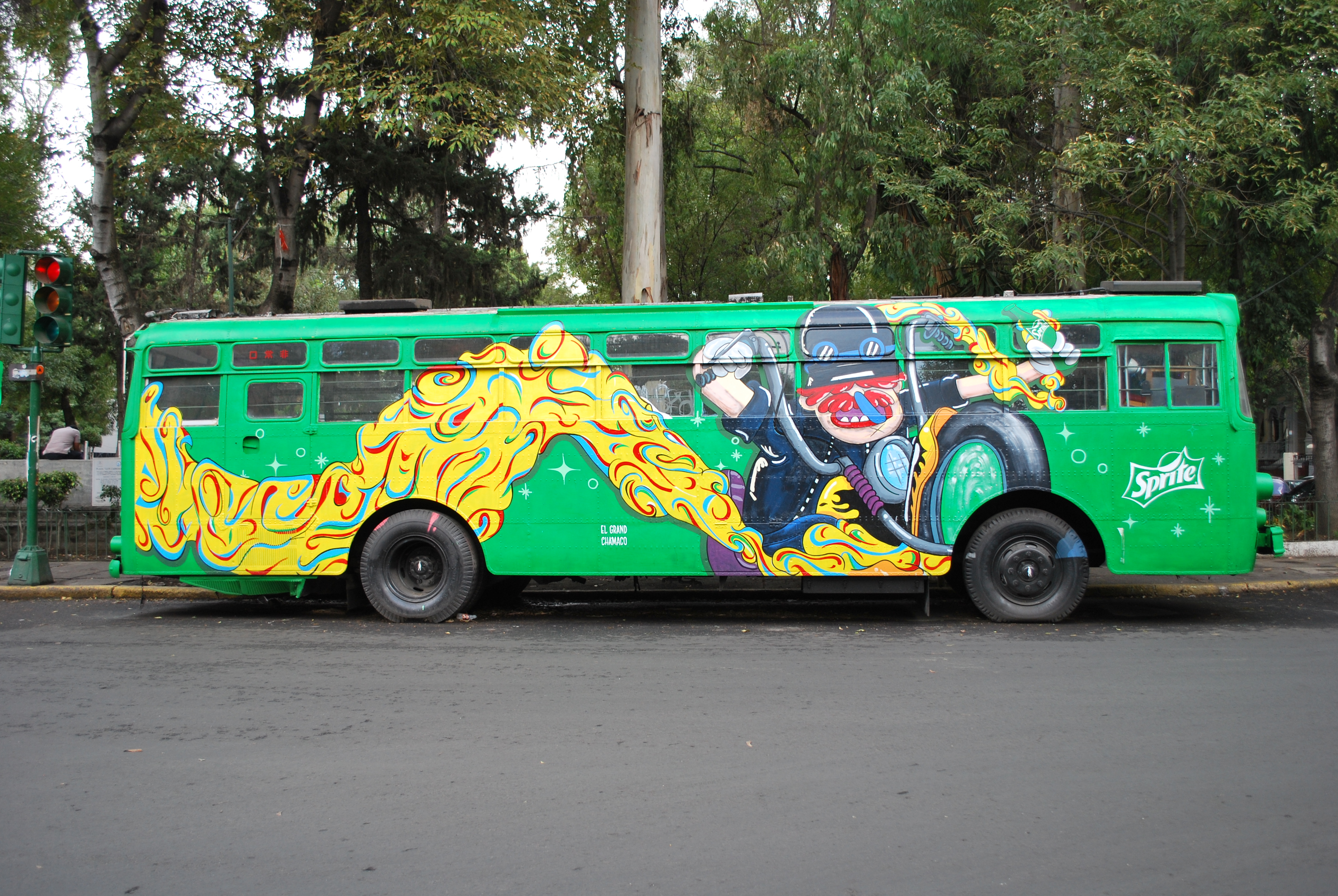 Old Japanese trolleybus at the north end of Plaza Luis Cabrera, in Colonia Roma, painted by El Gran Chamaco